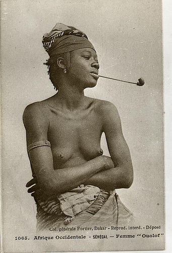 Woman from Senegal with pipe.